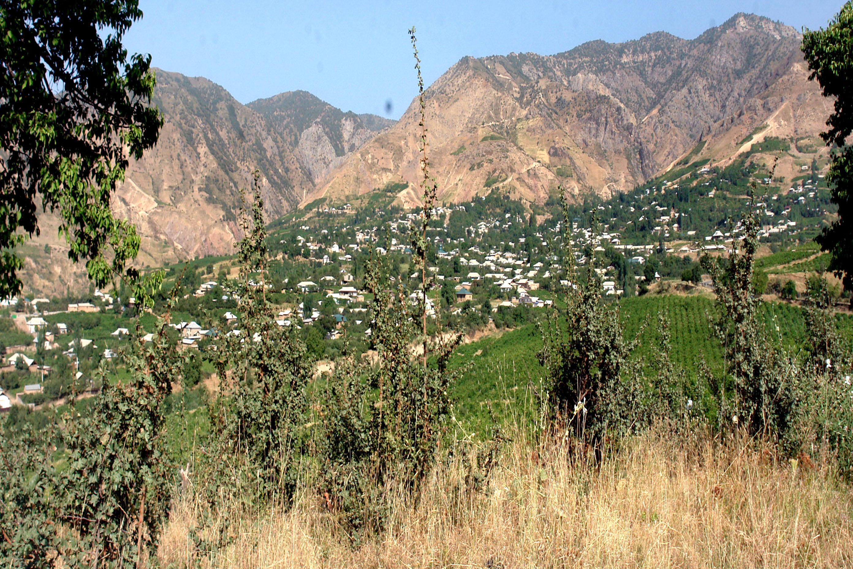 Nile village in Hissar district, TajikistanТоҷикӣ: Қишлоқи Нилу, ноҳияи Ҳисор, Тоҷикистон